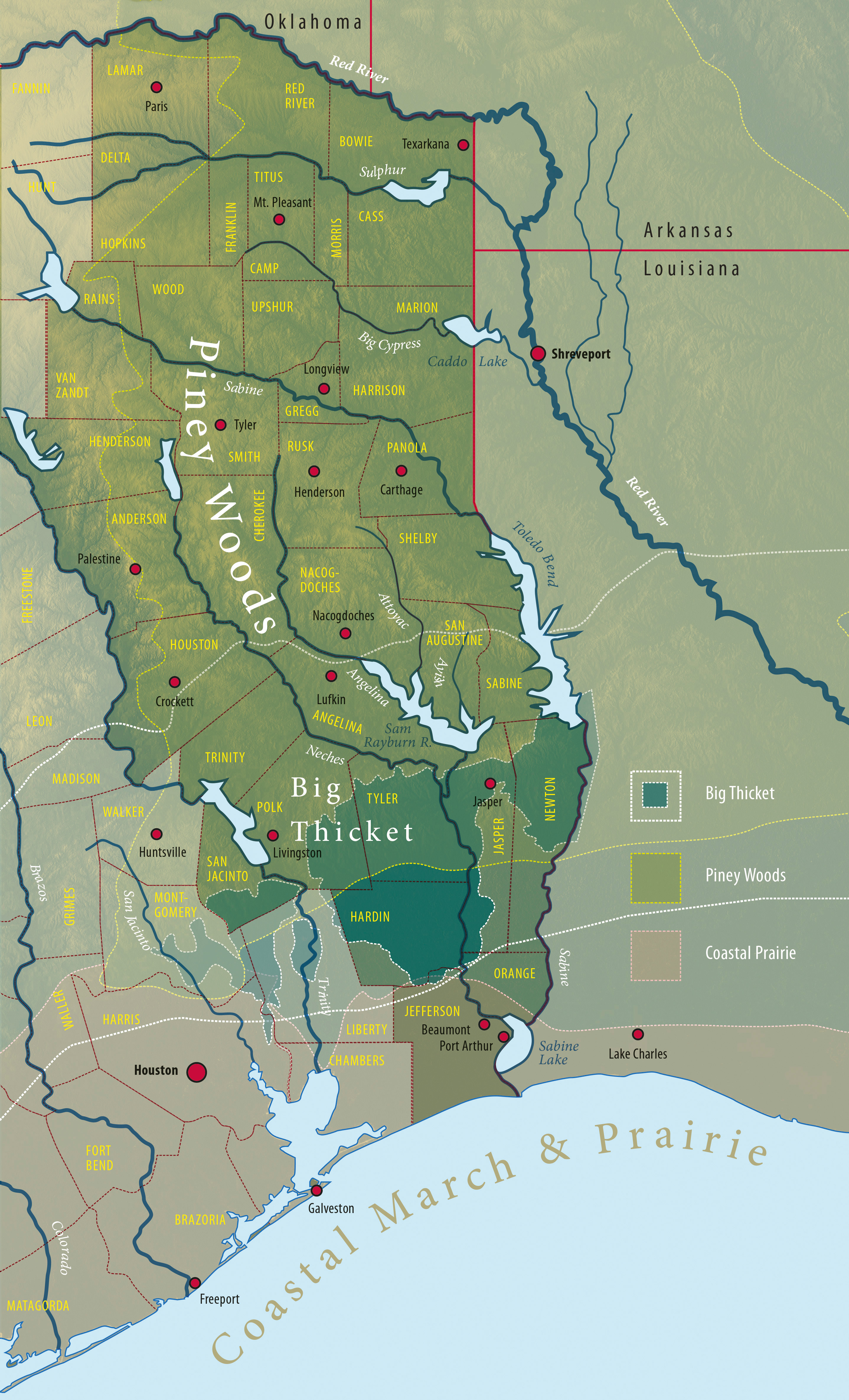 Ecoregions in East Texas. Legend: see map on the right